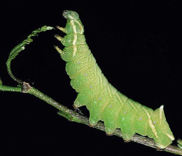 Endromis versicolora, Caterpillar